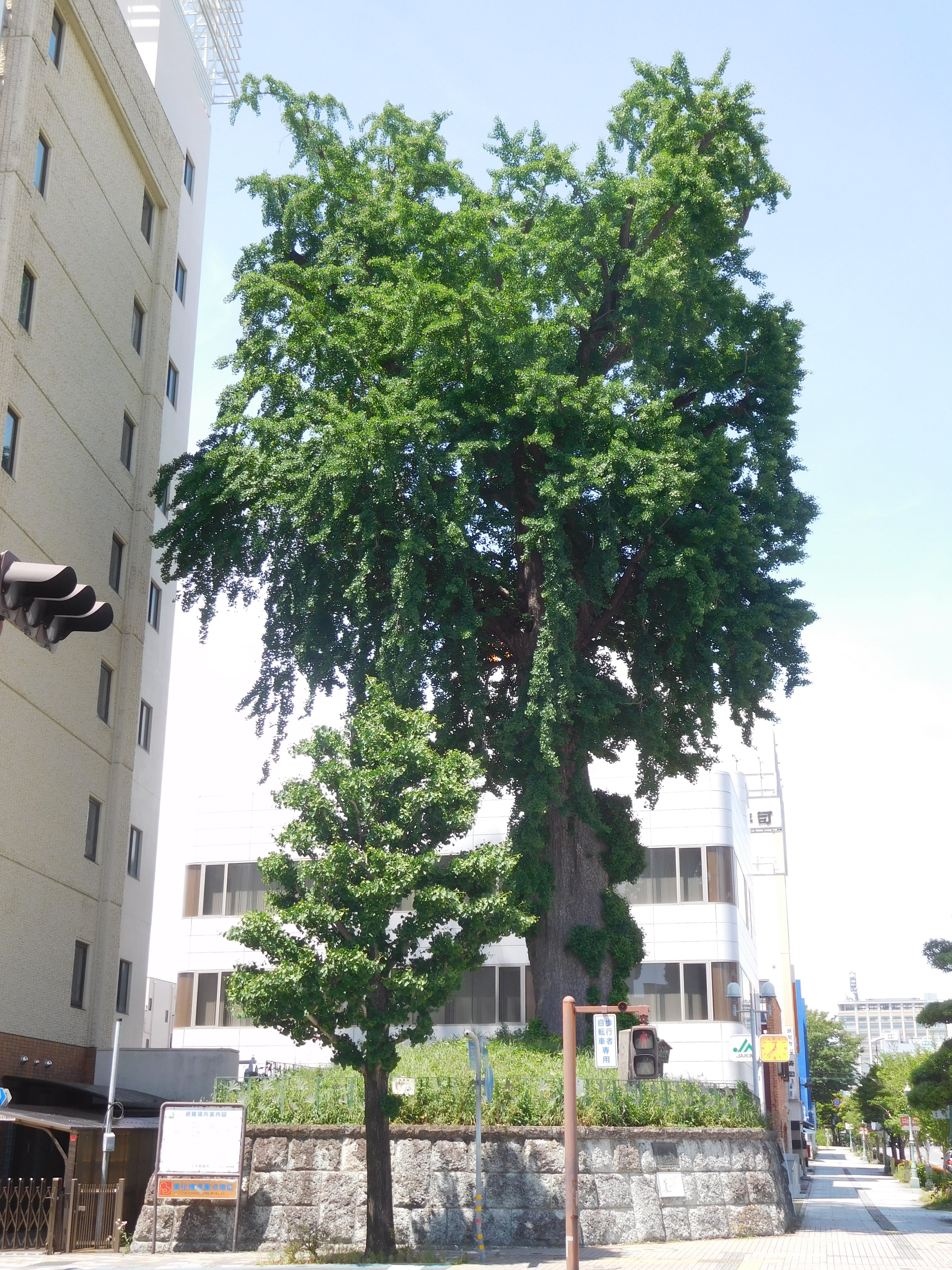 This is the Big Ginkgo in Asahi-cho, Utsunomiya, Tochigi, Japan.